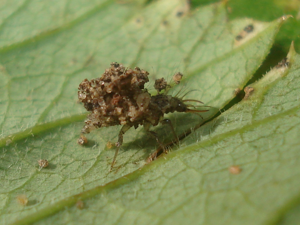 Chrysopidae